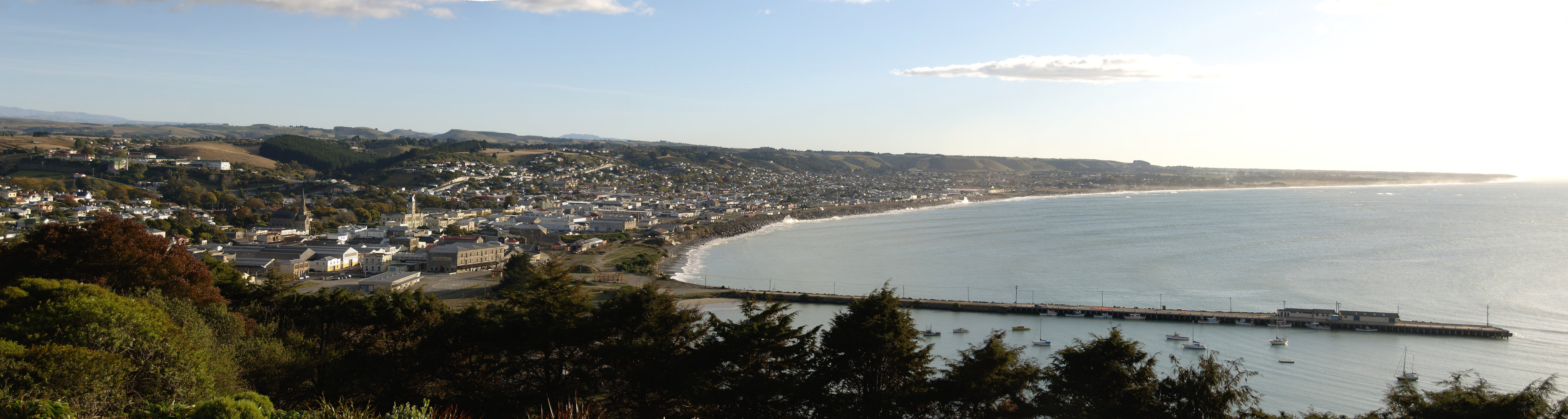 Early morning panorama of Oamaru and coast to the north. Stitched with Hugin from three original photographs.